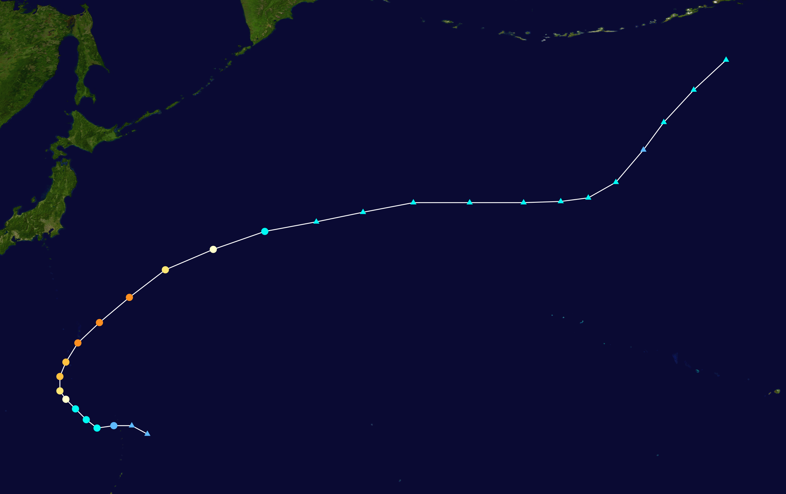 Track map of Typhoon Kajiki of the 2007 Pacific typhoon season. The points show the location of the storm at 6-hour intervals. The colour represents the storm's maximum sustained wind speeds as classified in the Saffir–Simpson scale (see below), and the shape of the data points represent the nature of the storm, according to the legend below. Saffir–Simpson scale Tropical depression≤38 mph≤62 km/h Category 3111–129 mph178–208 km/h Tropical storm39–73 mph63–118 km/h Category 4130–156 mph209–251 km/h Category 174–95 mph119–153 km/h Category 5≥157 mph≥252 km/h Category 296–110 mph154–177 km/h Unknown Storm type Tropical cyclone Subtropical cyclone Extratropical cyclone / Remnant low / Tropical disturbance / Monsoon depression